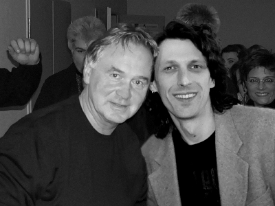 Singer, actor and songwriter Klaus Hoffmann and the song composer and lyricist Martin Zeuschner on the verge of a event in Bielefeld, 2007